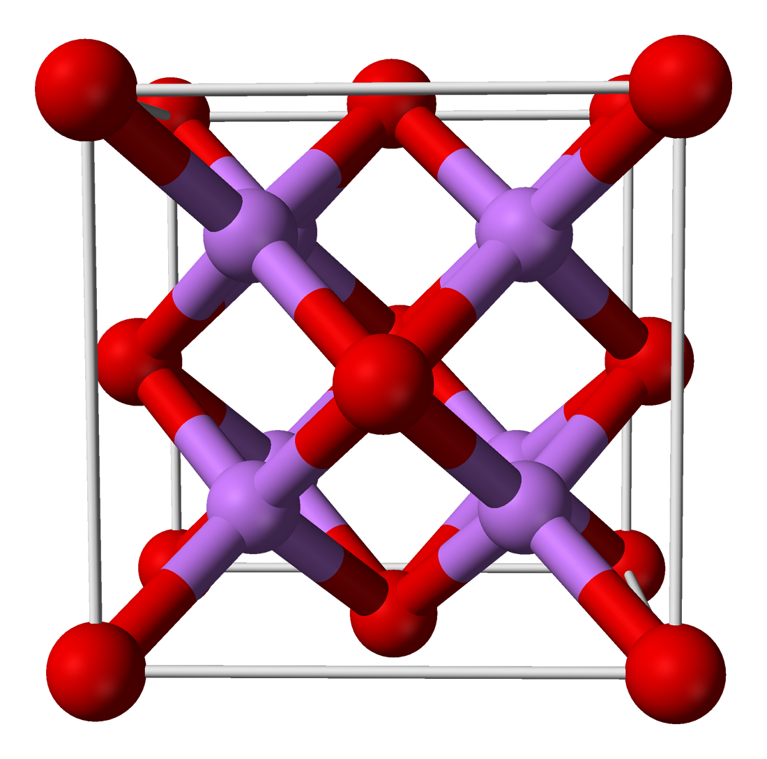 Ball-and-stick model of the lithium oxide (Li2O) unit cell